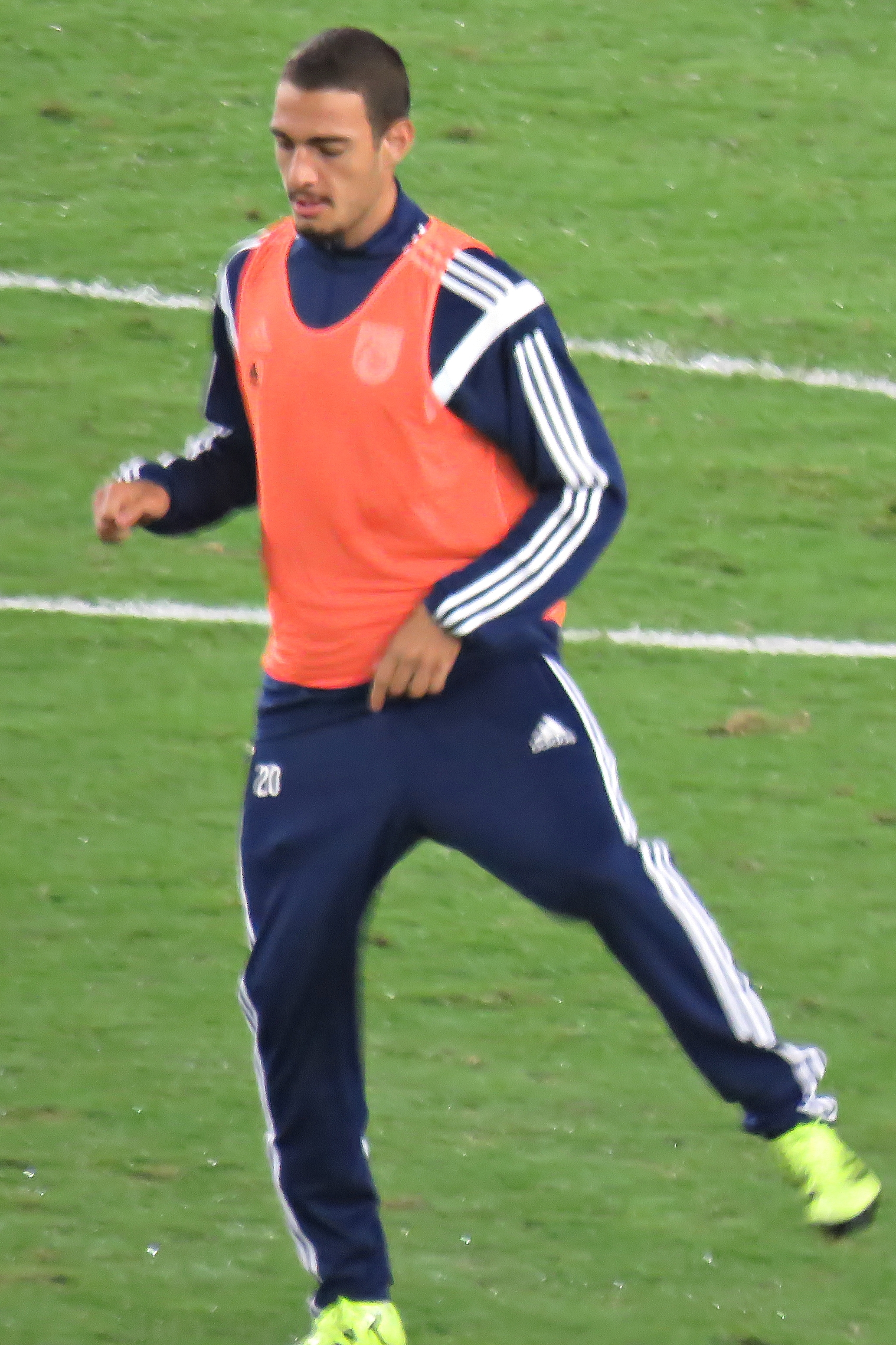 Israel vs. Cyprus - October 10, 2015